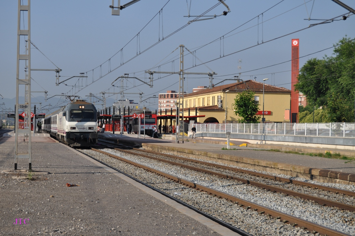 Estrella Costa Brava in Granollers Centre railway station (Catalonia, Spain).